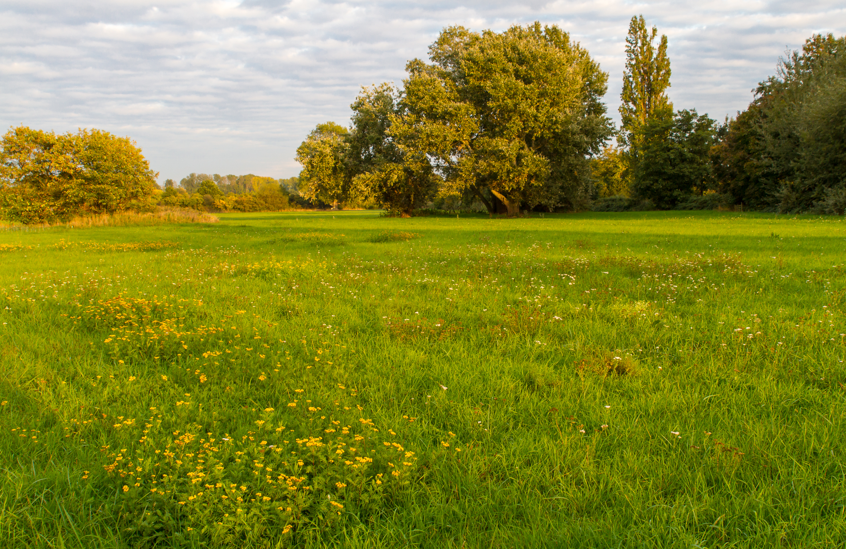 Area name: Marlachwiesen Type: Nature Reserve Description: Open humid meadowland areas in the transition area from the Haardtrand to the Böhler loess plate. Area number: NSG-7332-219 WDPA ID, CDDA-Code: 555514063 Year of the regulation: 2008 Place: Collective municipality Deidesheim, District Bad Dürkheim, Rhineland-Palatinate, Germany